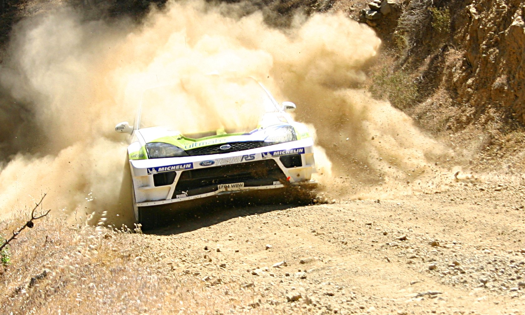 Roman Kresta driving his Ford Focus RS WRC 05 at the 2005 Cyprus Rally.